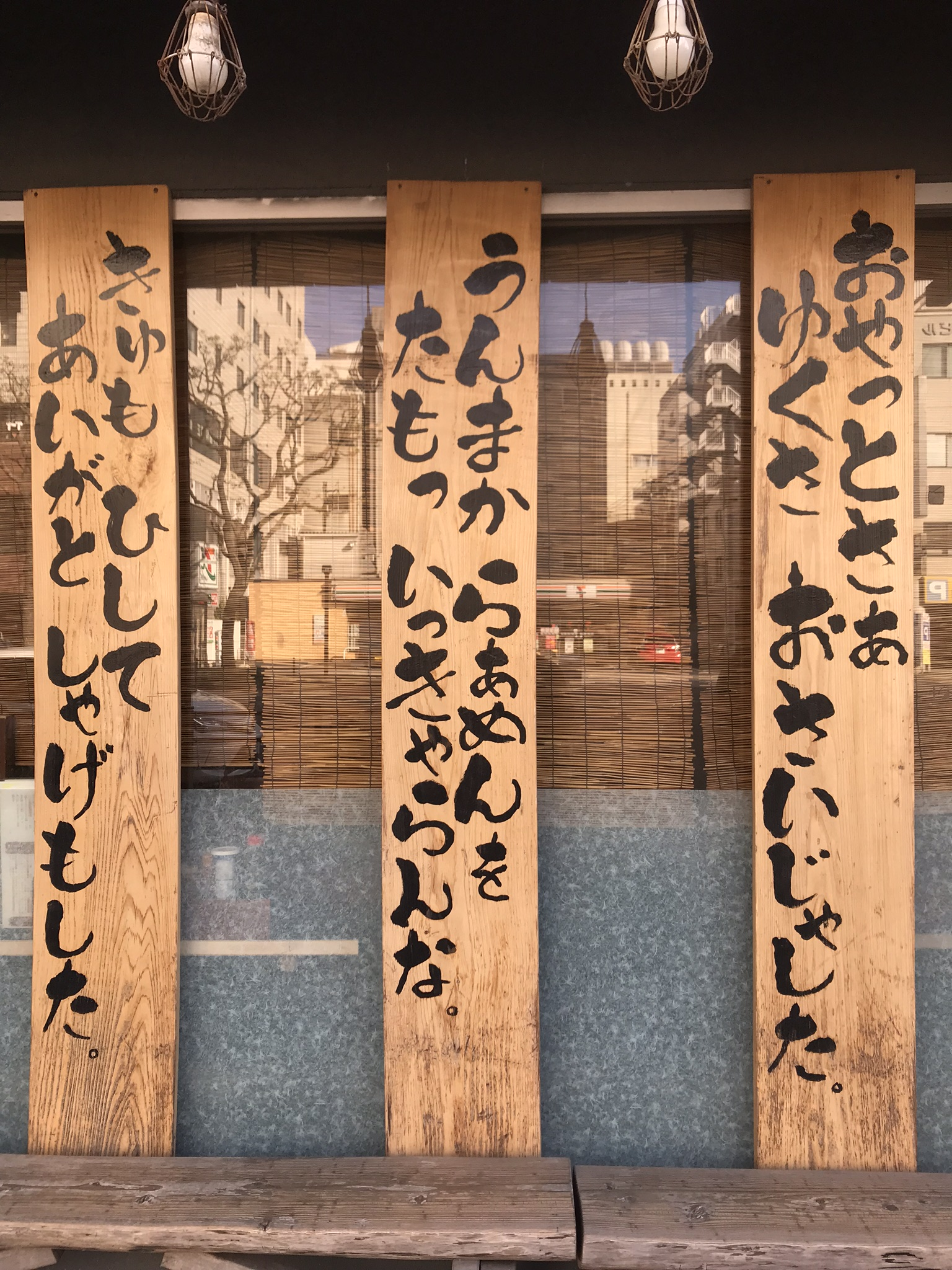 おやっとさぁ Oyattosa means "You must be tired." ゆくさ おさいじゃした Yukusa osaijashita means "Welcome." うんまか らぁめんを たもっ いっきゃらんな Ummaka ramen o tamot ikkyaranna means "Why don't you eat our yummy ramen?" きゅも ひして あいがと しゃげもした Kyu mo hishite aigato shagemoshita means "Thank you again for today."